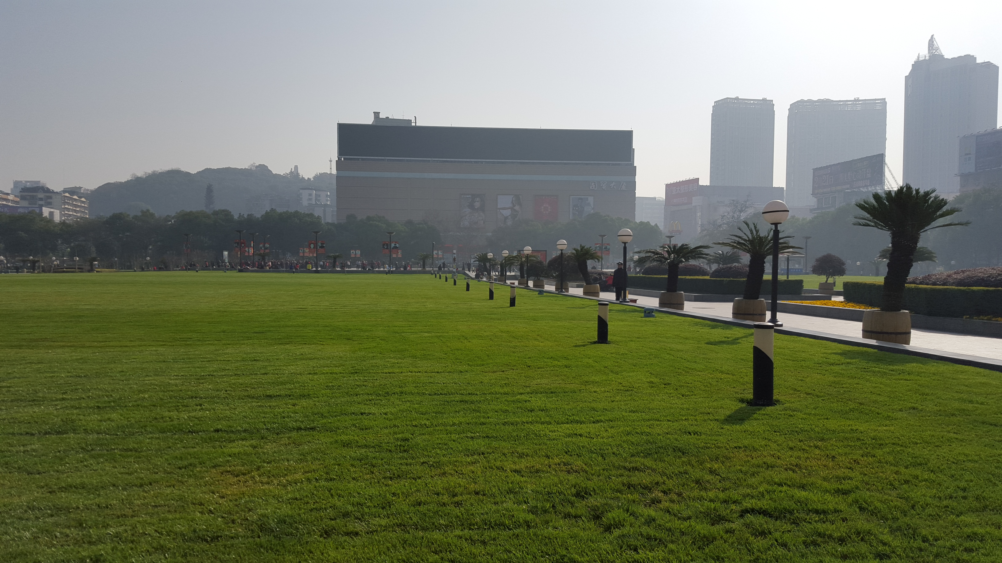 yiling plaza,yichang,hubei,china